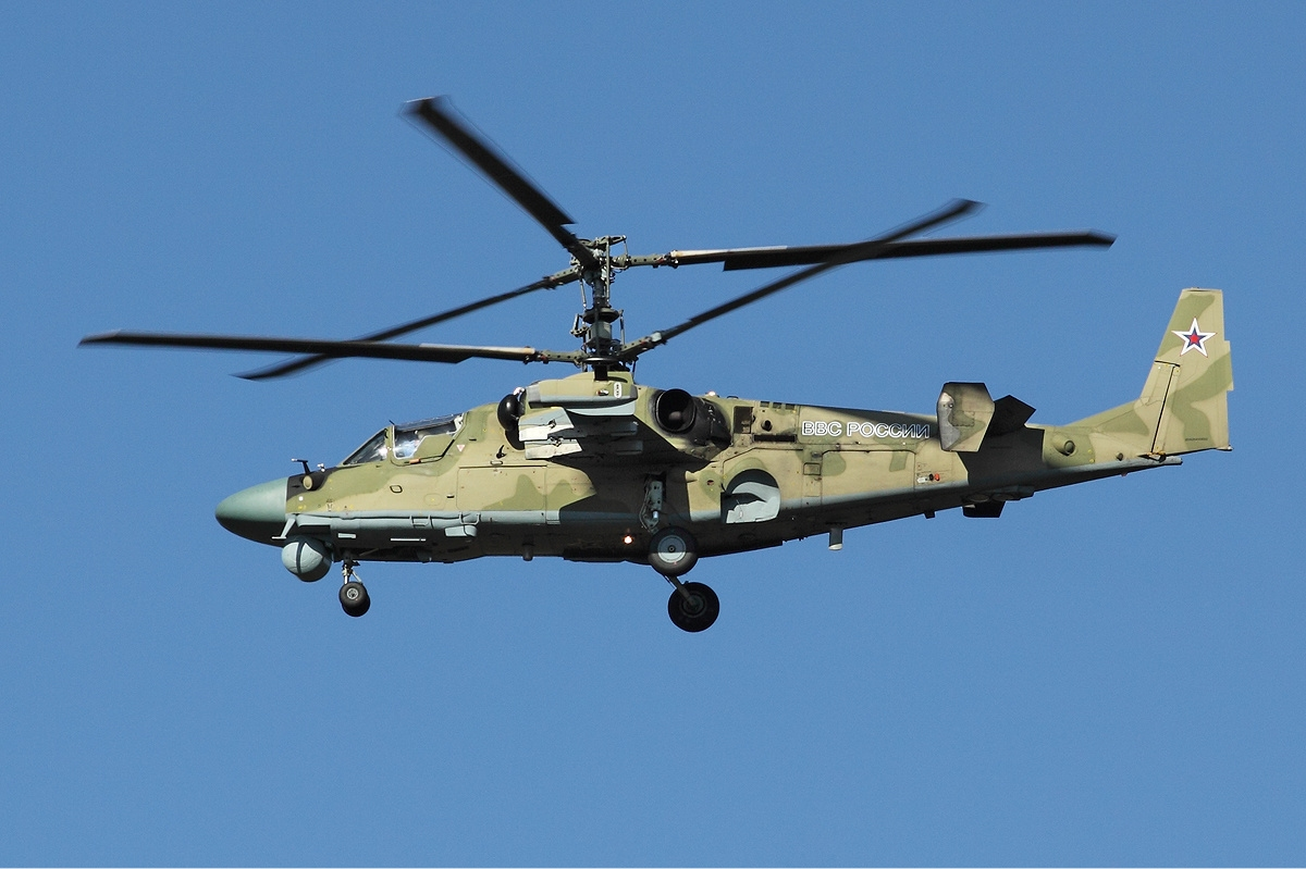 Russian Air Force Kamov Ka-52